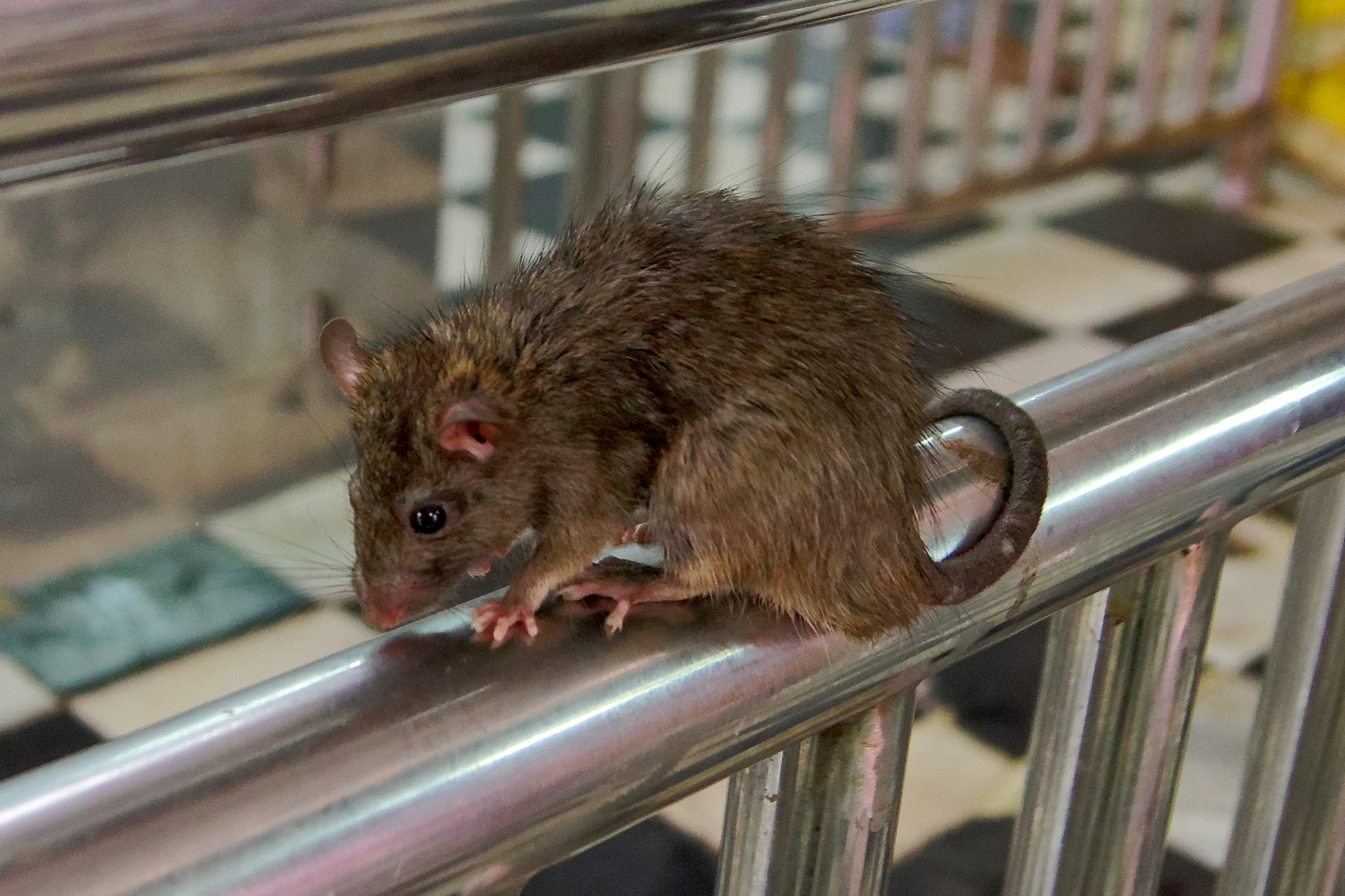 A rat at the Karni Mata Temple in Deshnoke